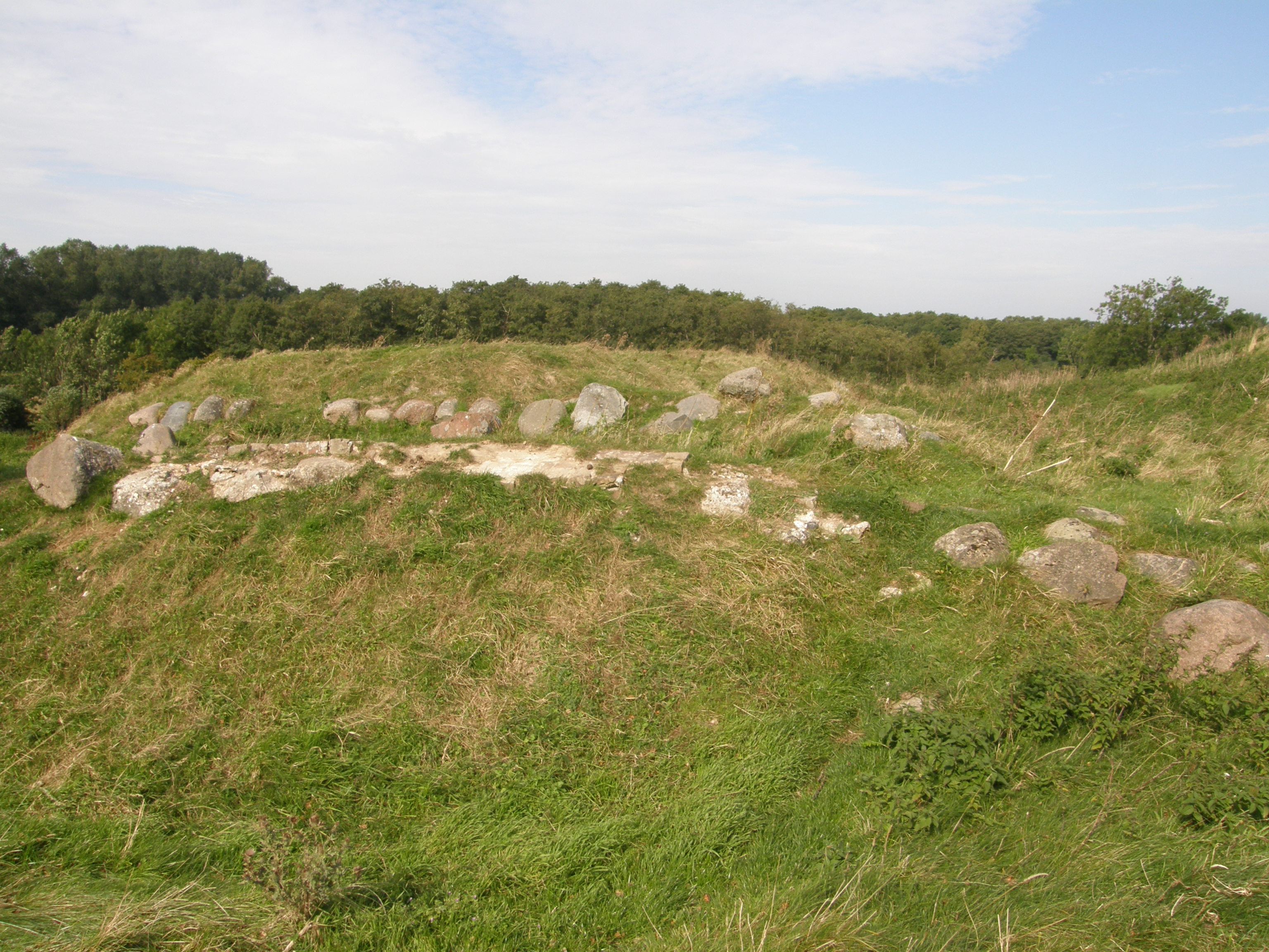 Ruins of Ravnsborg, Lolland, Denmark